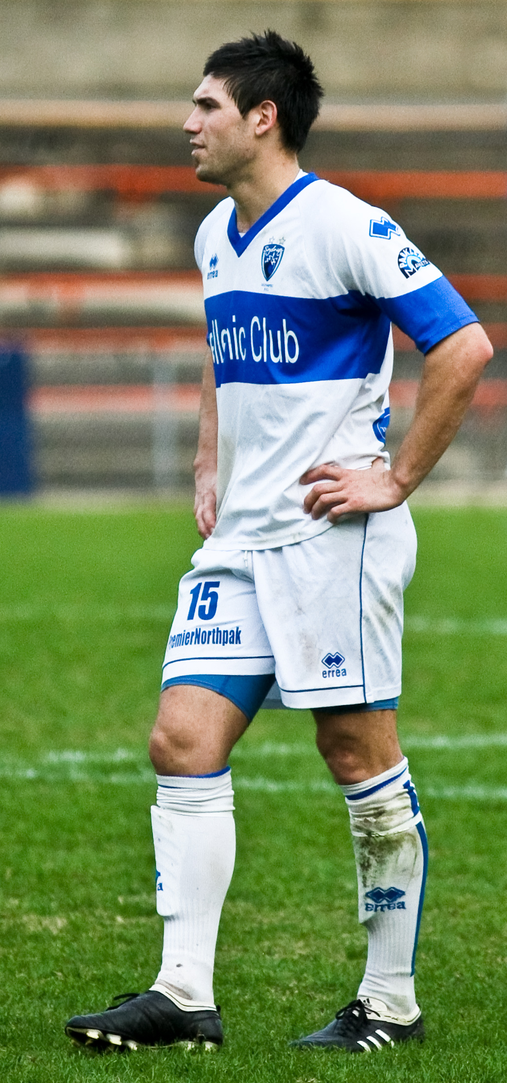 Matthew Mayora playing for Sydney Olympic in the New South Wales Premier League.